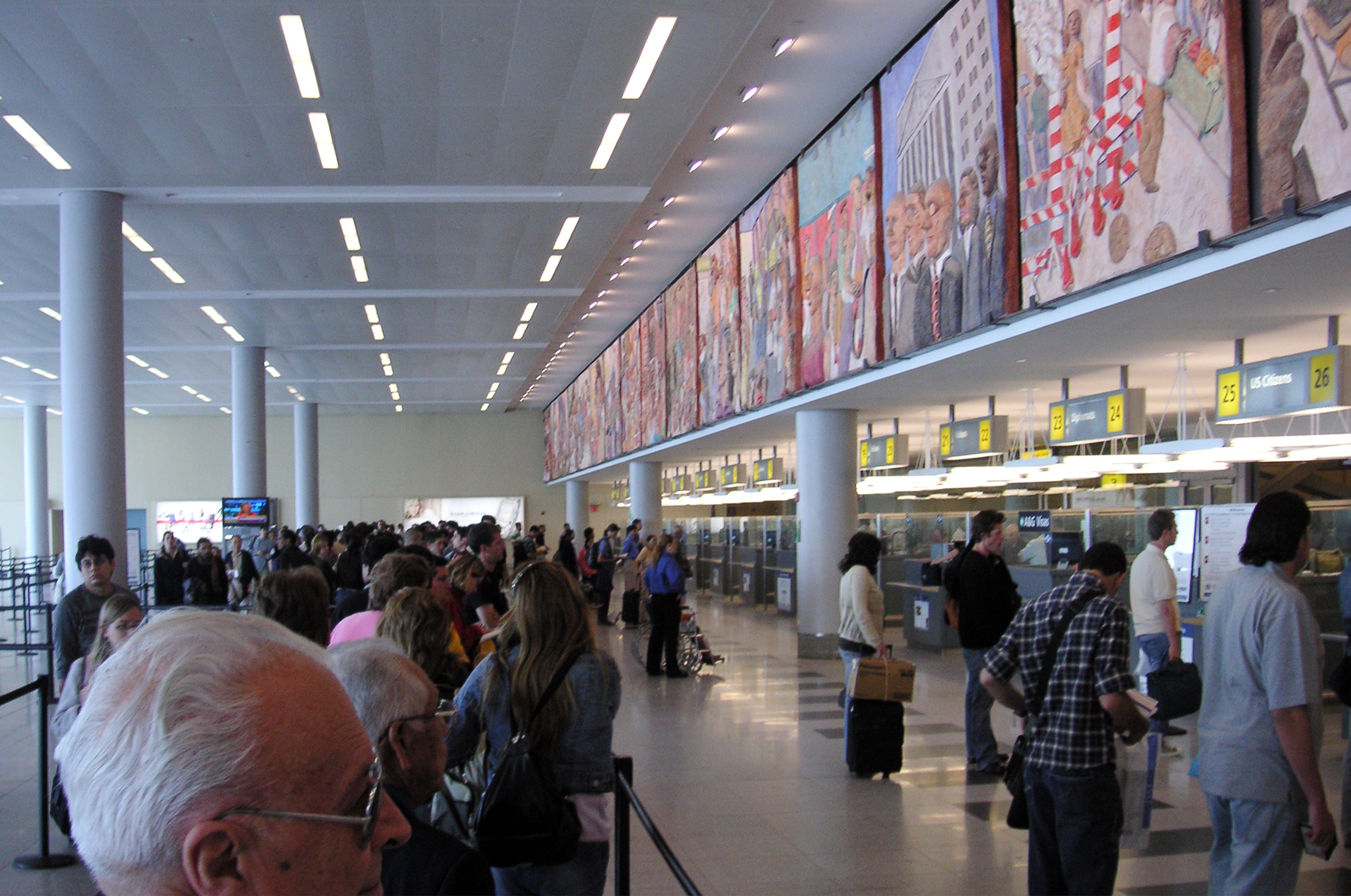 JFK Airport, Immigration